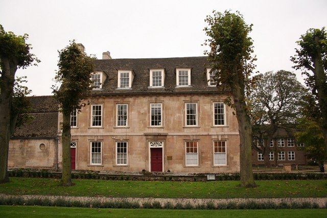 Brazenose House from Stamford School. Looking across St. Paul's Street from Stamford School to Brazenose House